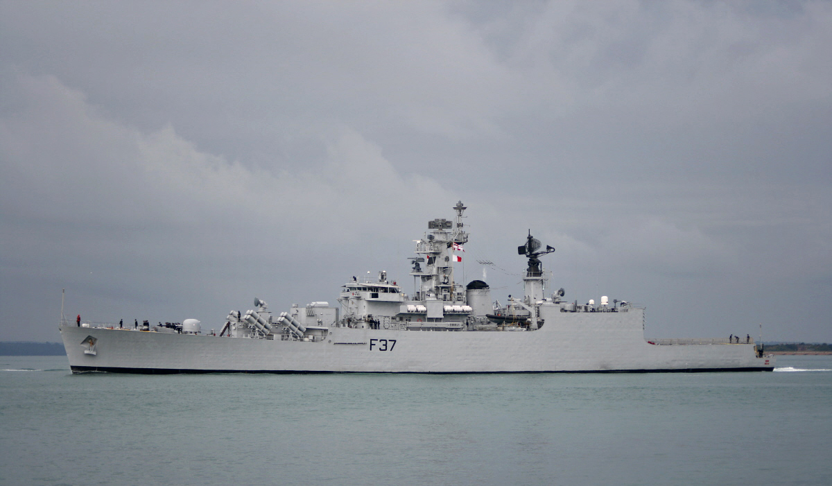 INS Beas, an Indian Navy Brahmaputra class frigate (a modified UK Leander class) departing Portsmouth Naval Base, UK, 20th June 2009. Image uploaded by me, George.Hutchinson, from a photograph taken and supplied by Brian Burnell. The photograph should be attributed to Brian Burnell.